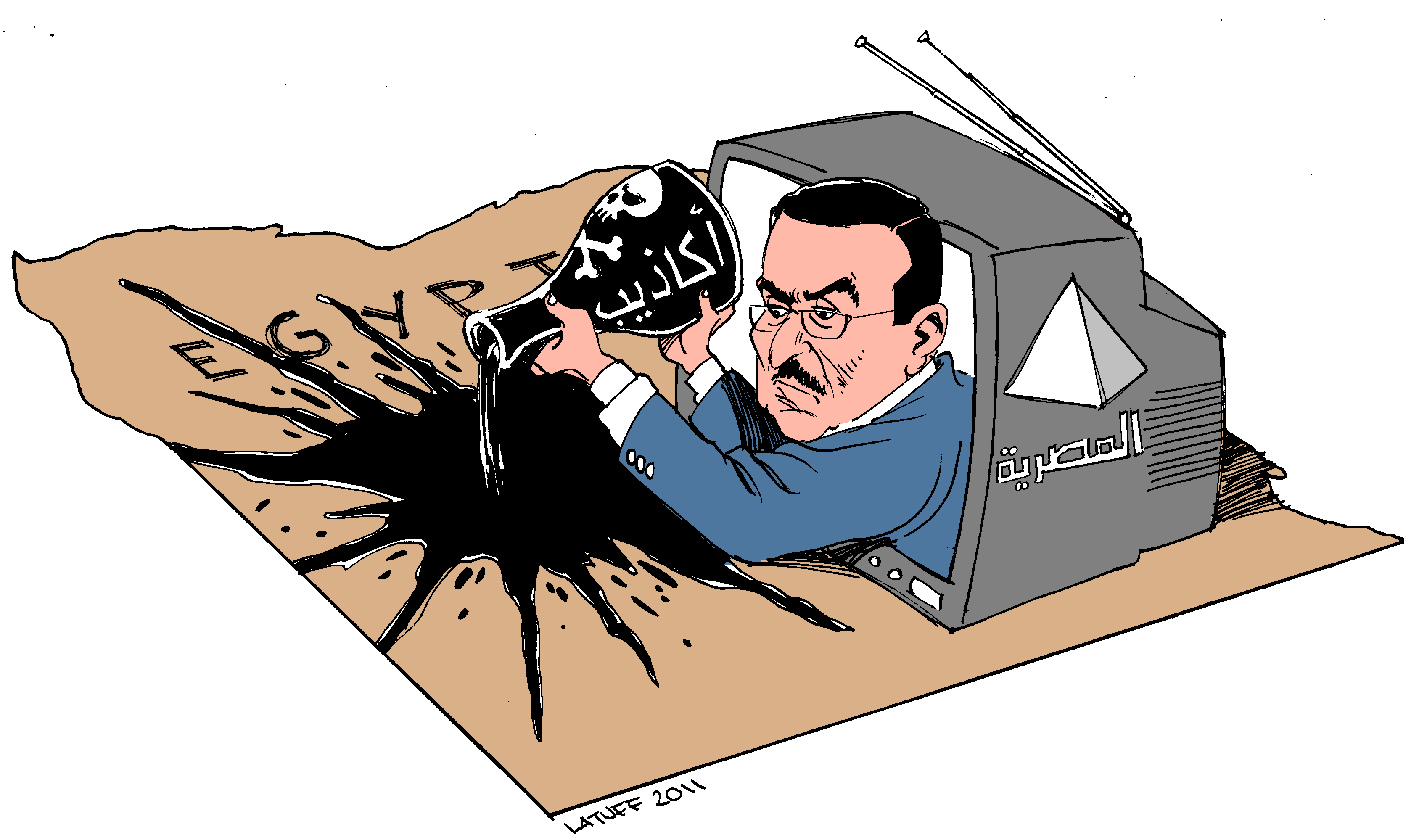 Osama Heikal SCAF's Minister of Propaganda